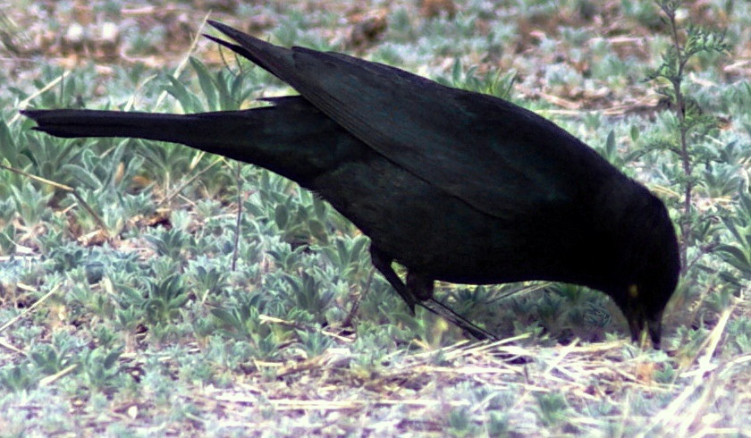 Adult male Brewer's Blackbird, Euphagus cyanocephalus, apparently "gaping" (forcibly opening its bill) to probe for food in soil. Birds of the family Icteridae are among the few that can force their beaks open. Probably my yard, Española, New Mexico.